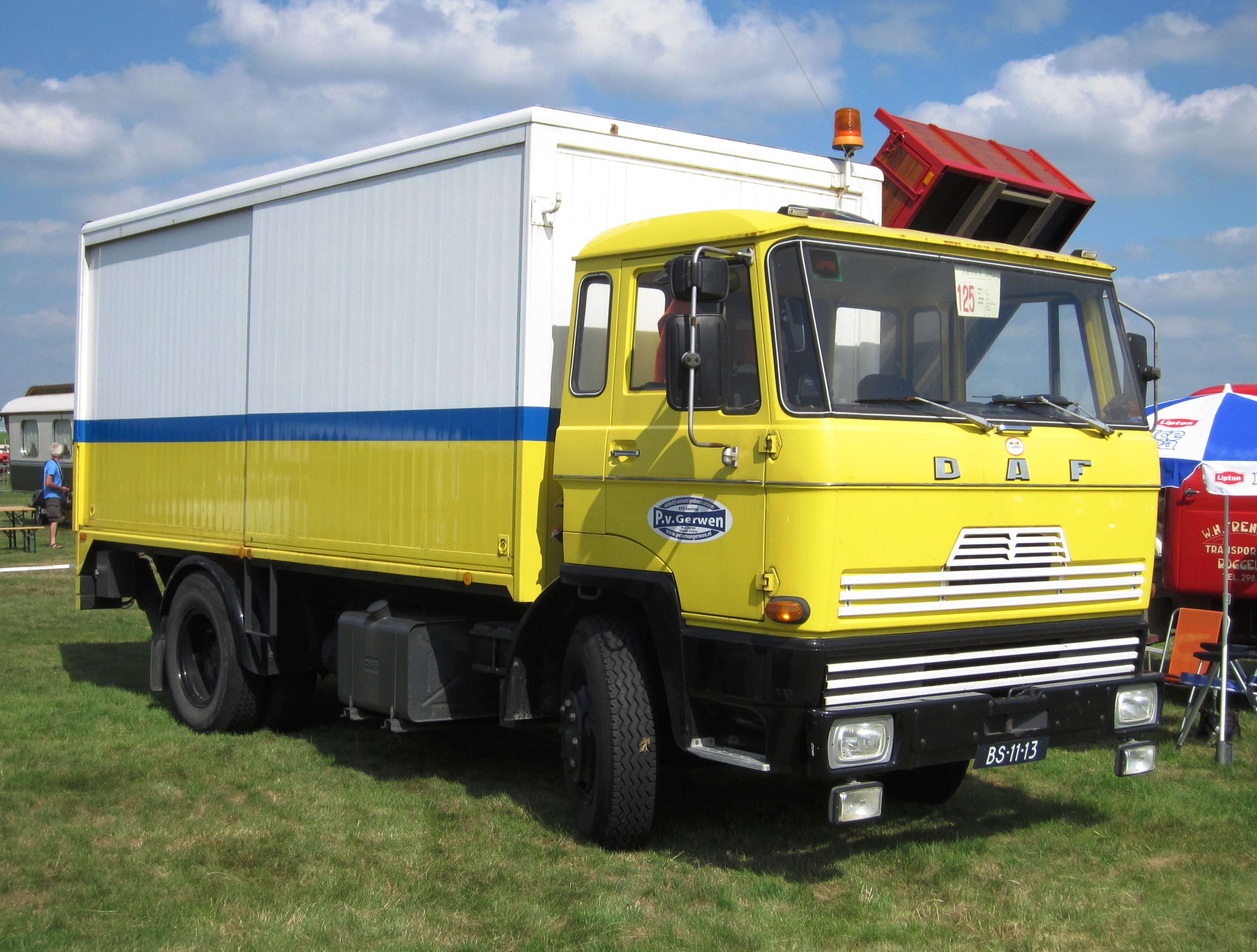 1971 DAF F1600 DF360, with a 93kW (126PS) six-cylinder diesel engine. 5660kg empty, 13 ton max weight. 3600mm wheelbase, 2200mm overall width.